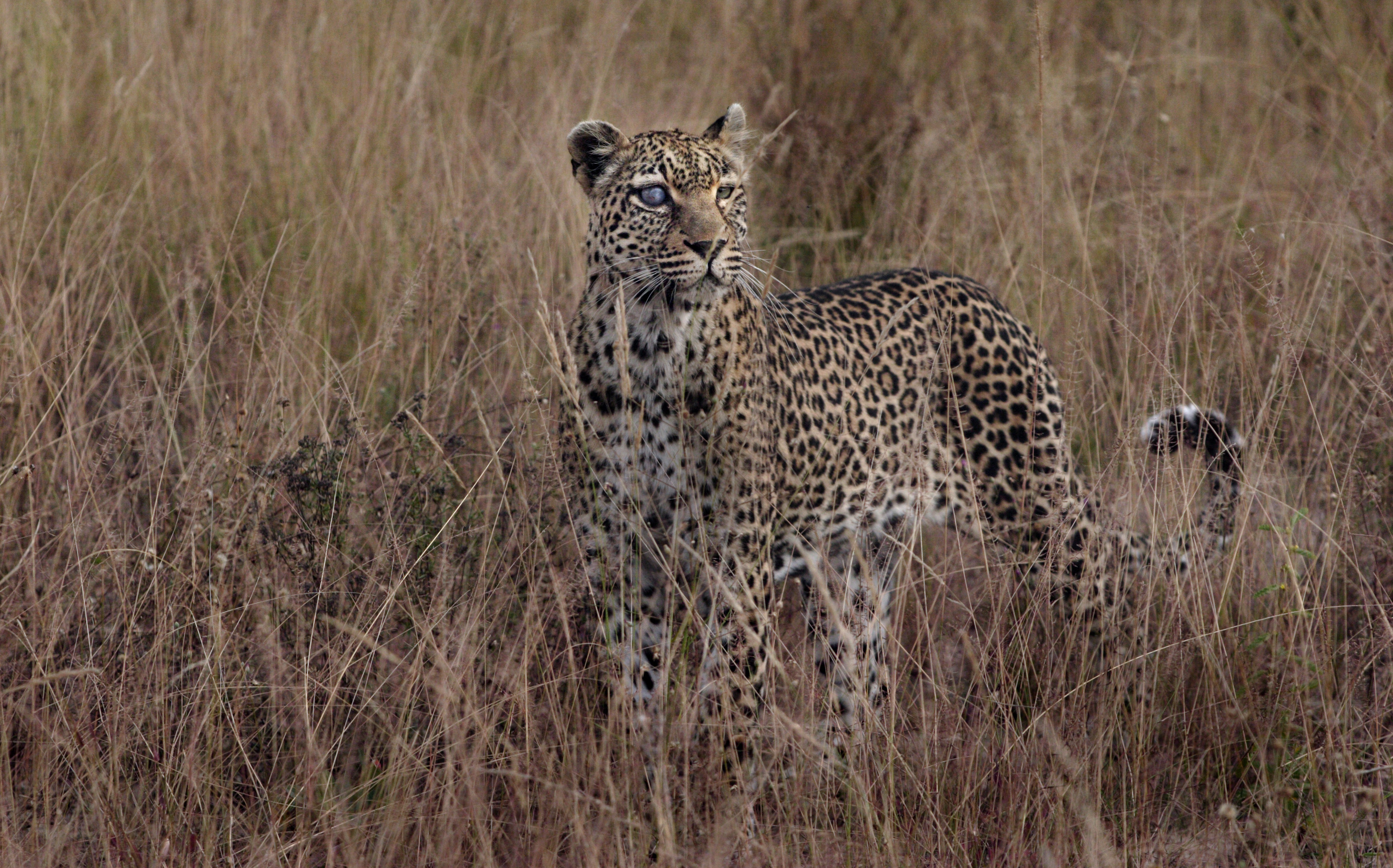 The one visioned female leopard walks in the bush in Djuma Game Reserve, in Sabi Sand outside Kruger NP.Photo: Jan Fleischmann